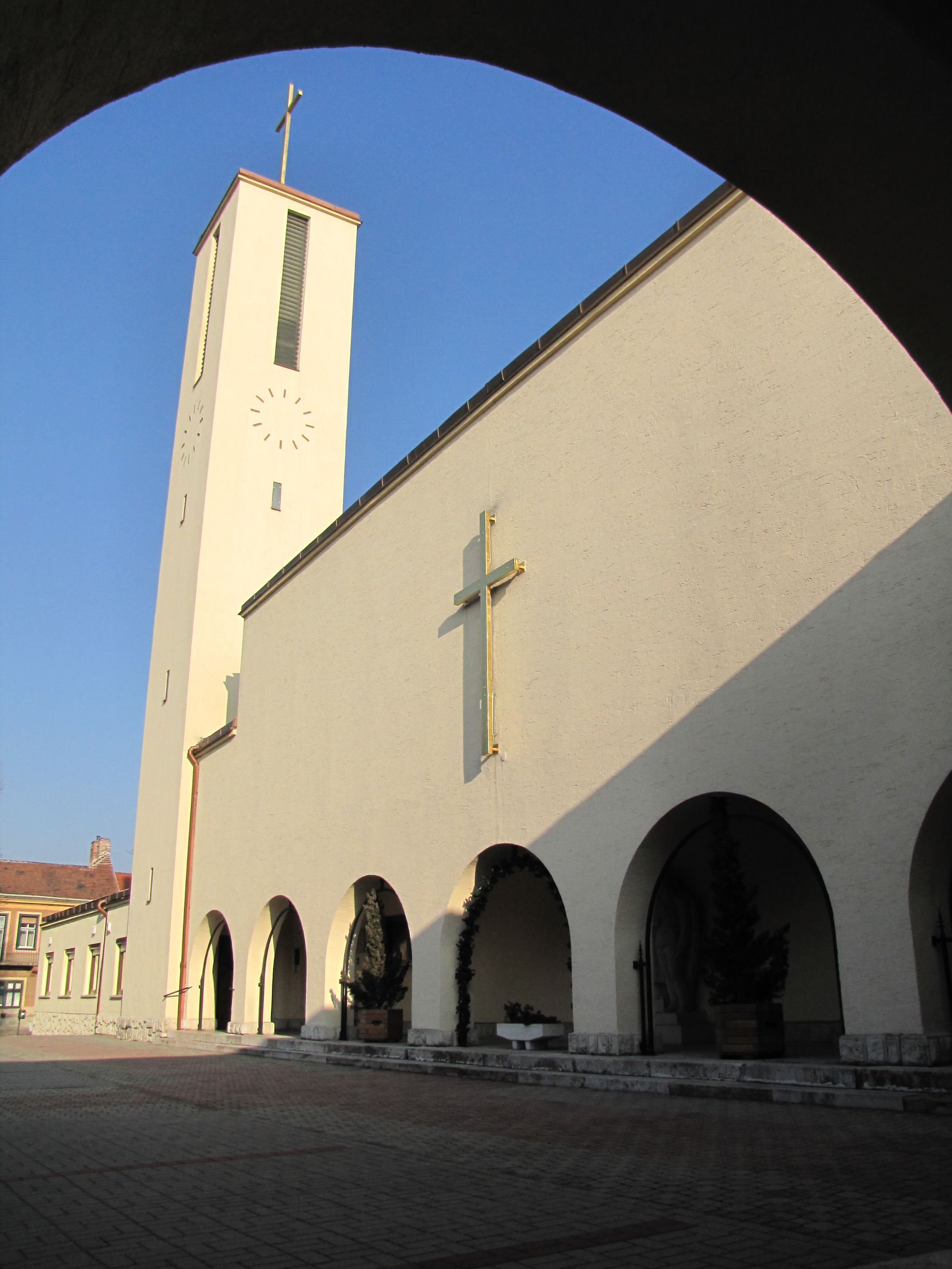 Sopron, Roman Catholic Church of St Stephen. Architect: Nándor Körmendy, 1941